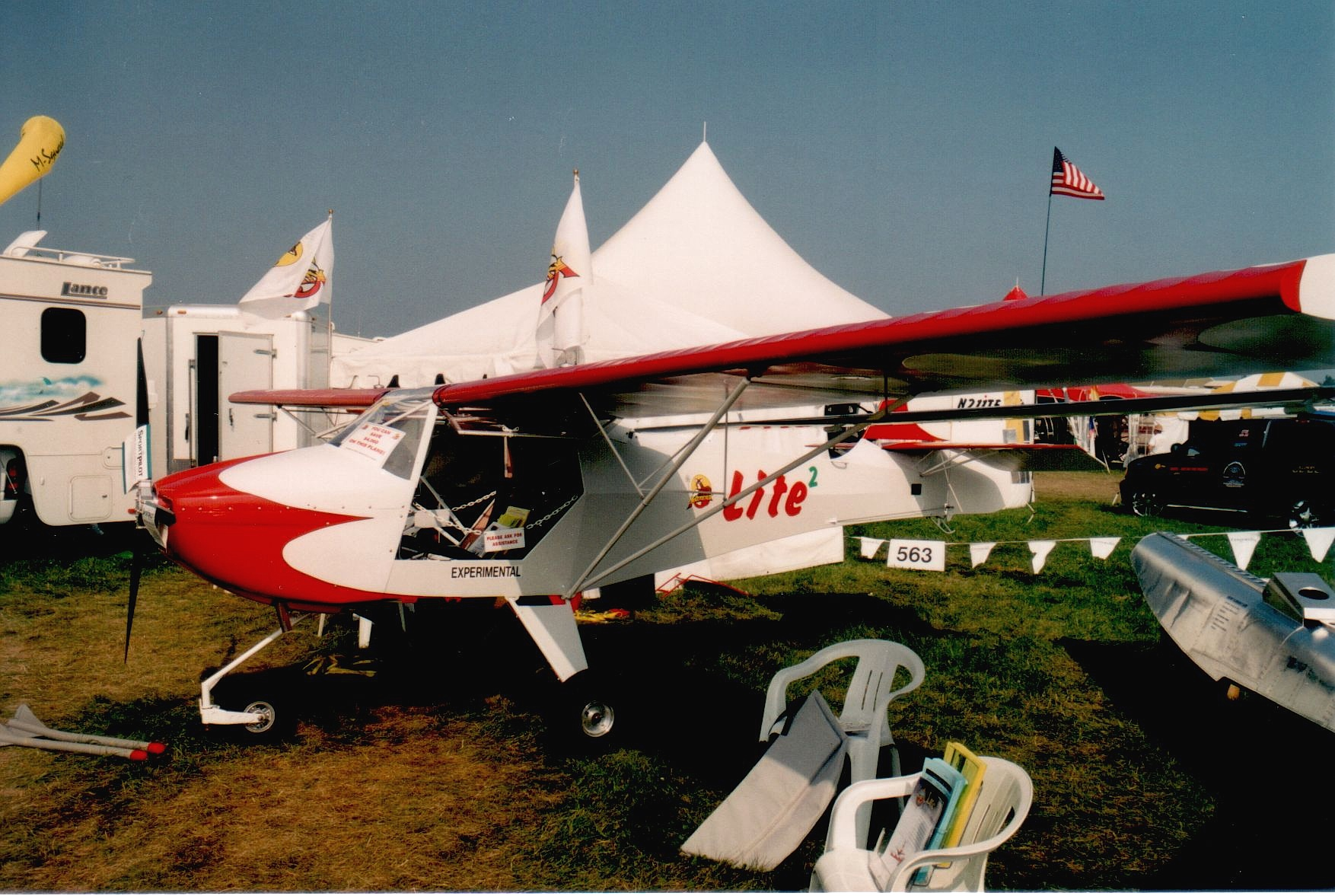 A Kitfox Lite2 at AirVenture Oshkosh 2001